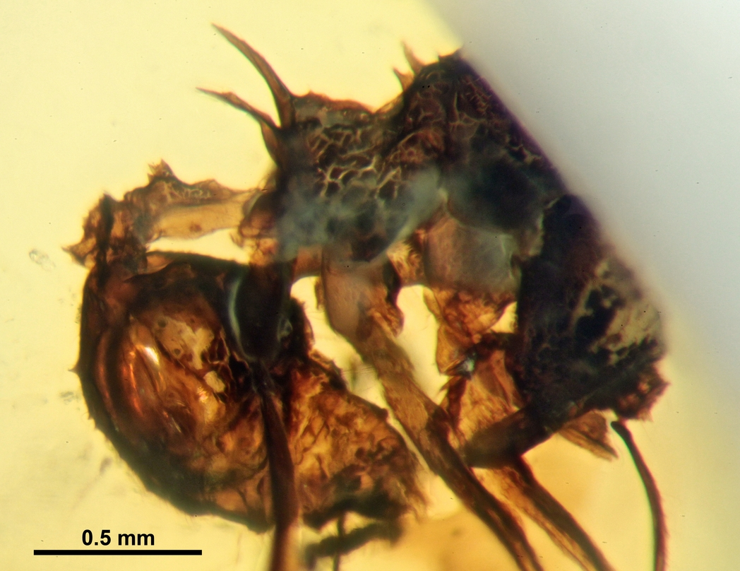 Profile view of a Trachymyrmex primaevus paratype worker. Burdigalian, Miocene; Dominaican amber, Dominican Republic Staatliches Museum fur Naturkunde, Stuttgart, Germany, specimen SMNSDO377-K3